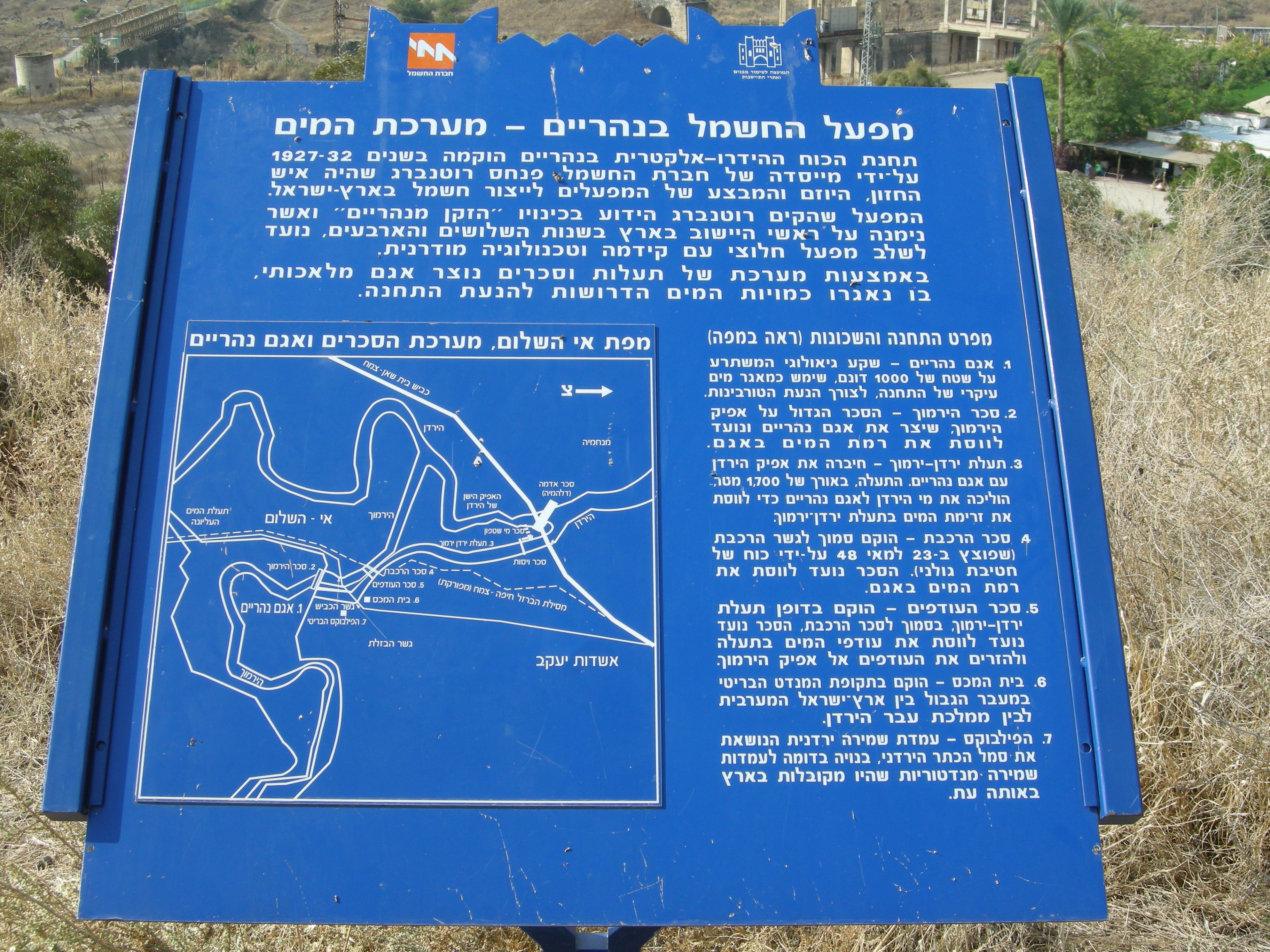 Naharayim memorial